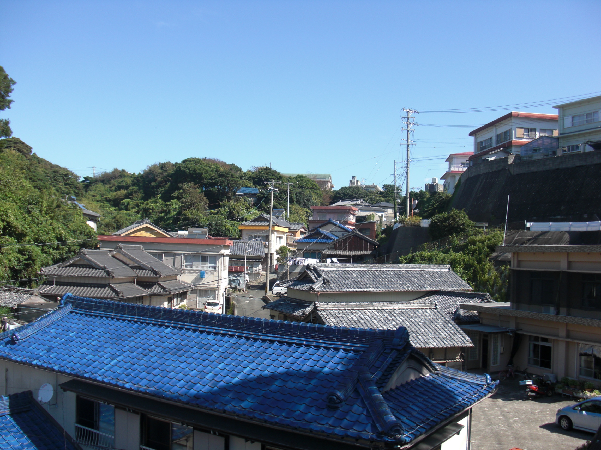 This is a landscape of Kuzaki-cho, Toba city, Mie prefecture, Japan.